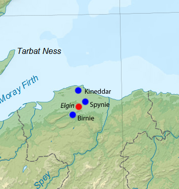 The first cathedral churchs of Moray